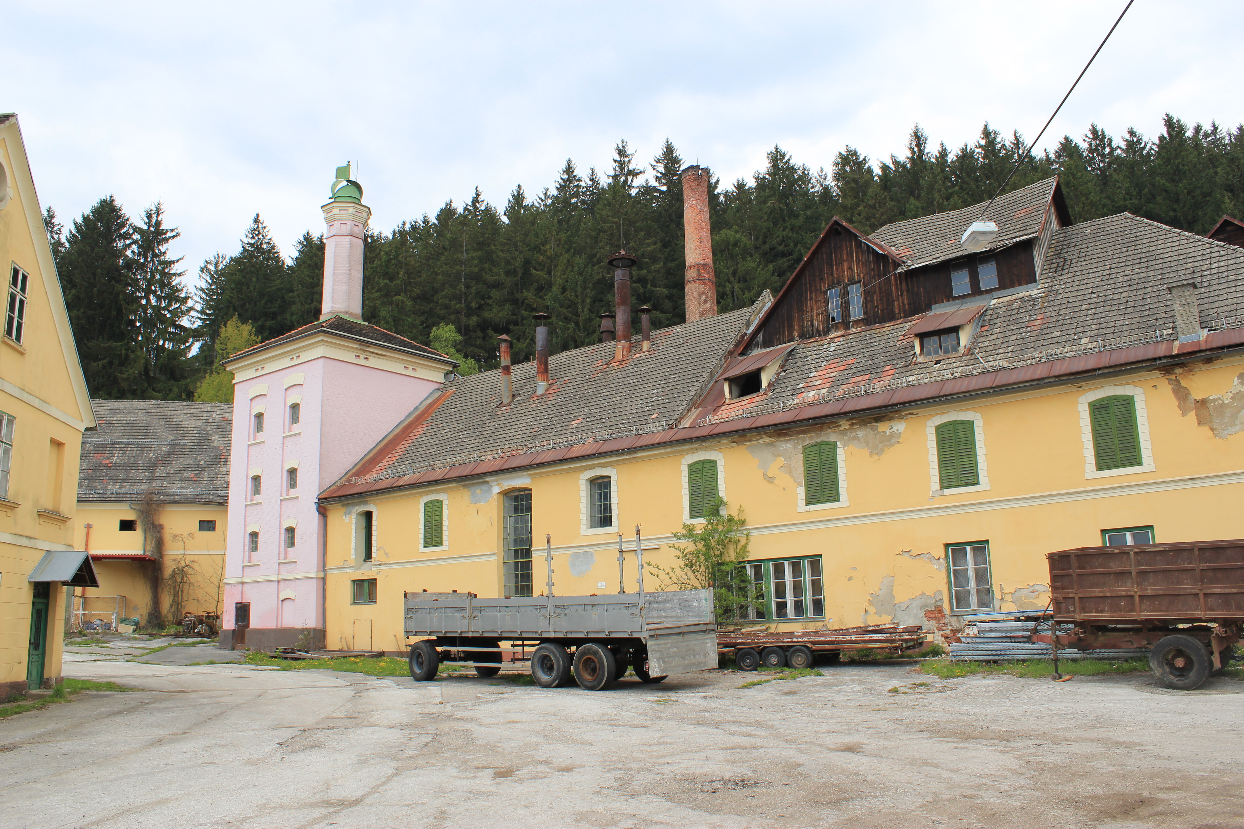 Discontinued Brewery in the community Bleiburg